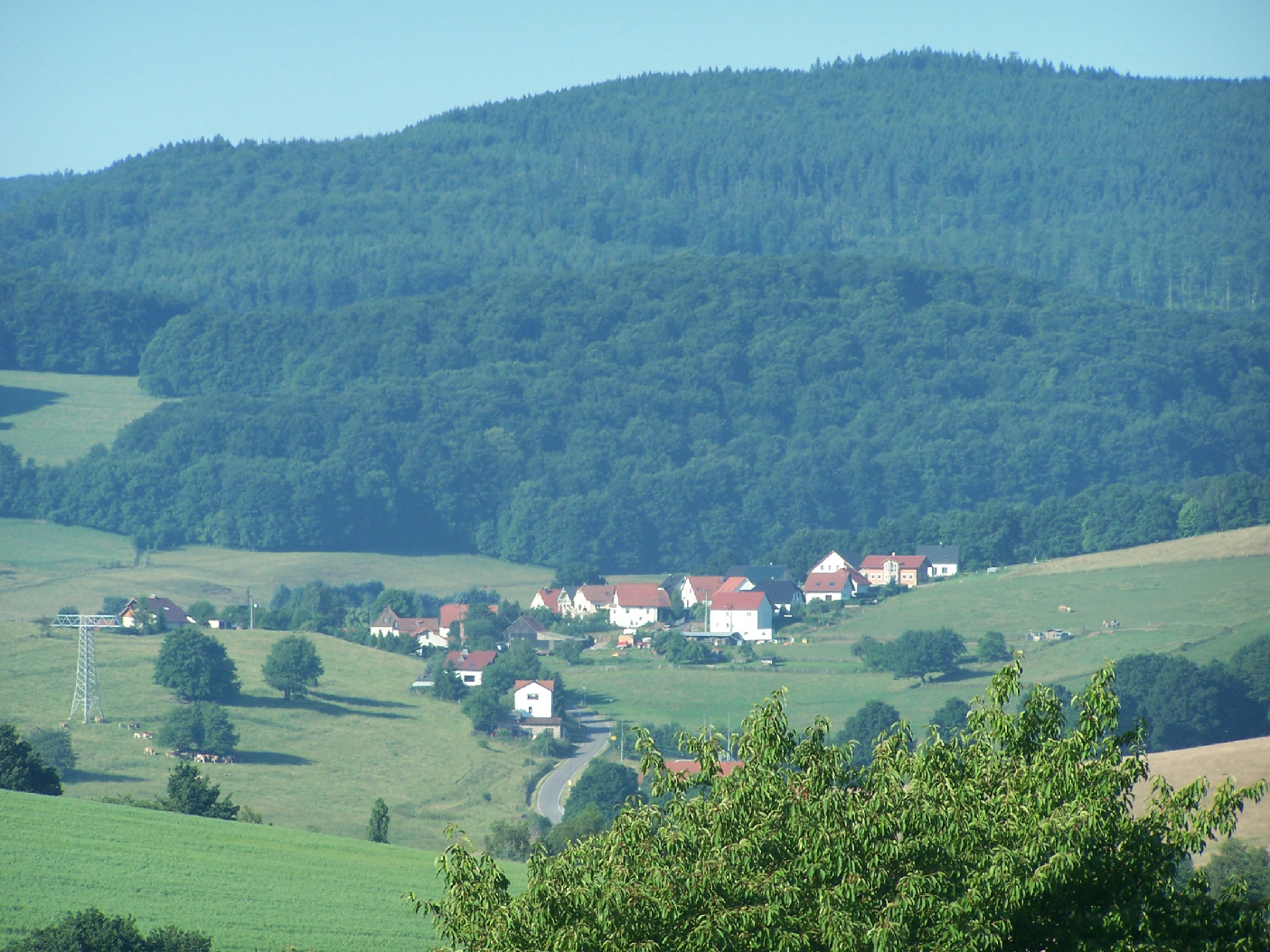 The Kittelstal view from Rehberg (Farnroda).